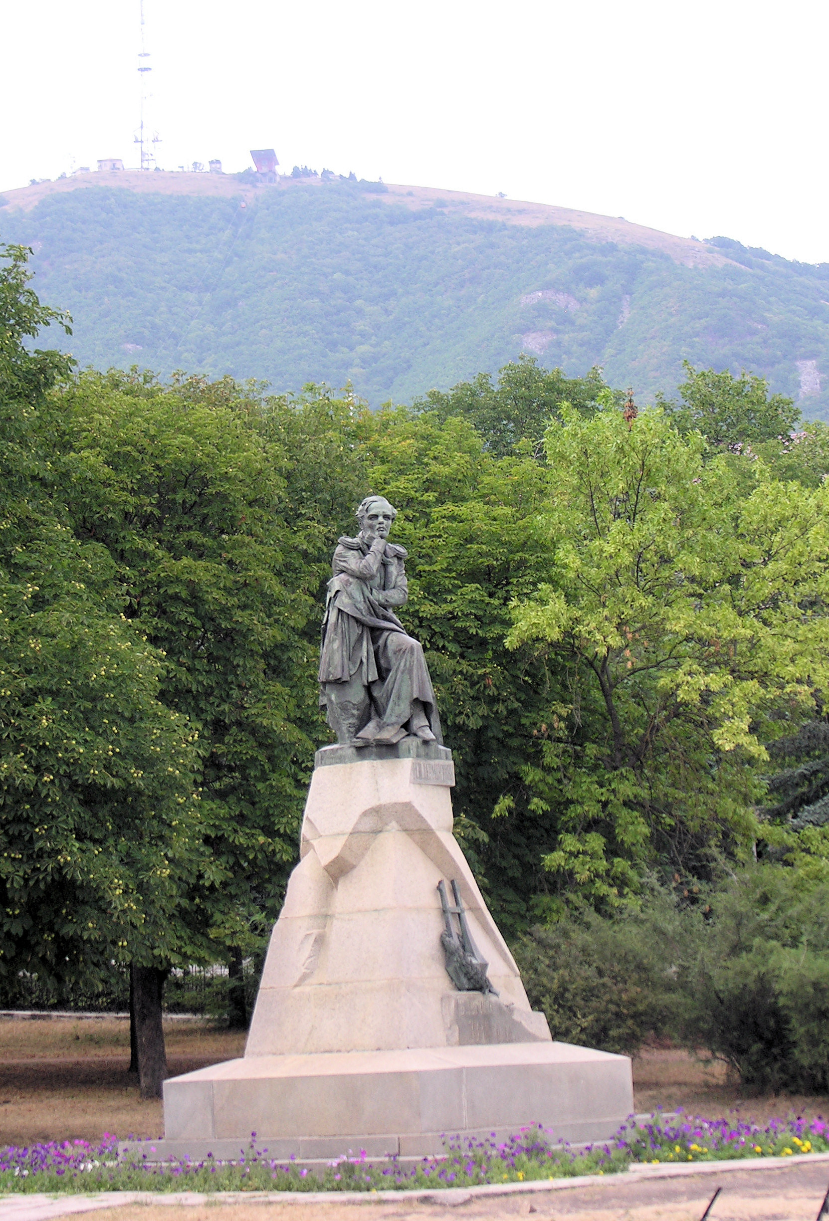 Lermontov's monument in Pyatigorsk, 2007.